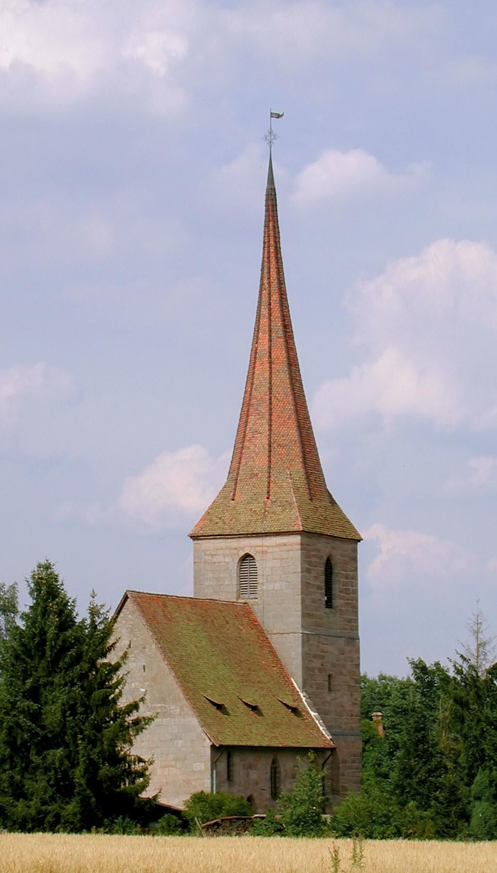 Picture of the Allerheiligenkirchen in Kleinschwarzenlohe